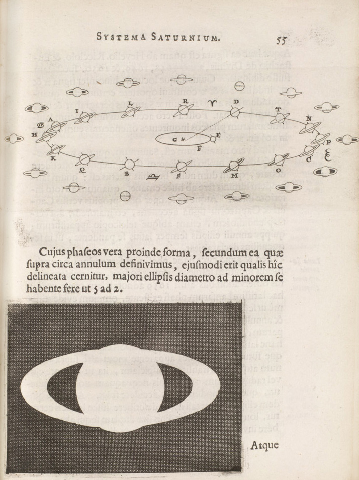 Top: Diagram showing how Saturn's appearance to us changes due the changing positions of the Earth (E) and Saturn as they orbit the Sun (G). Bottom: Huygens's observation of Saturn presenting its rings to us at their greatest inclination. (source)